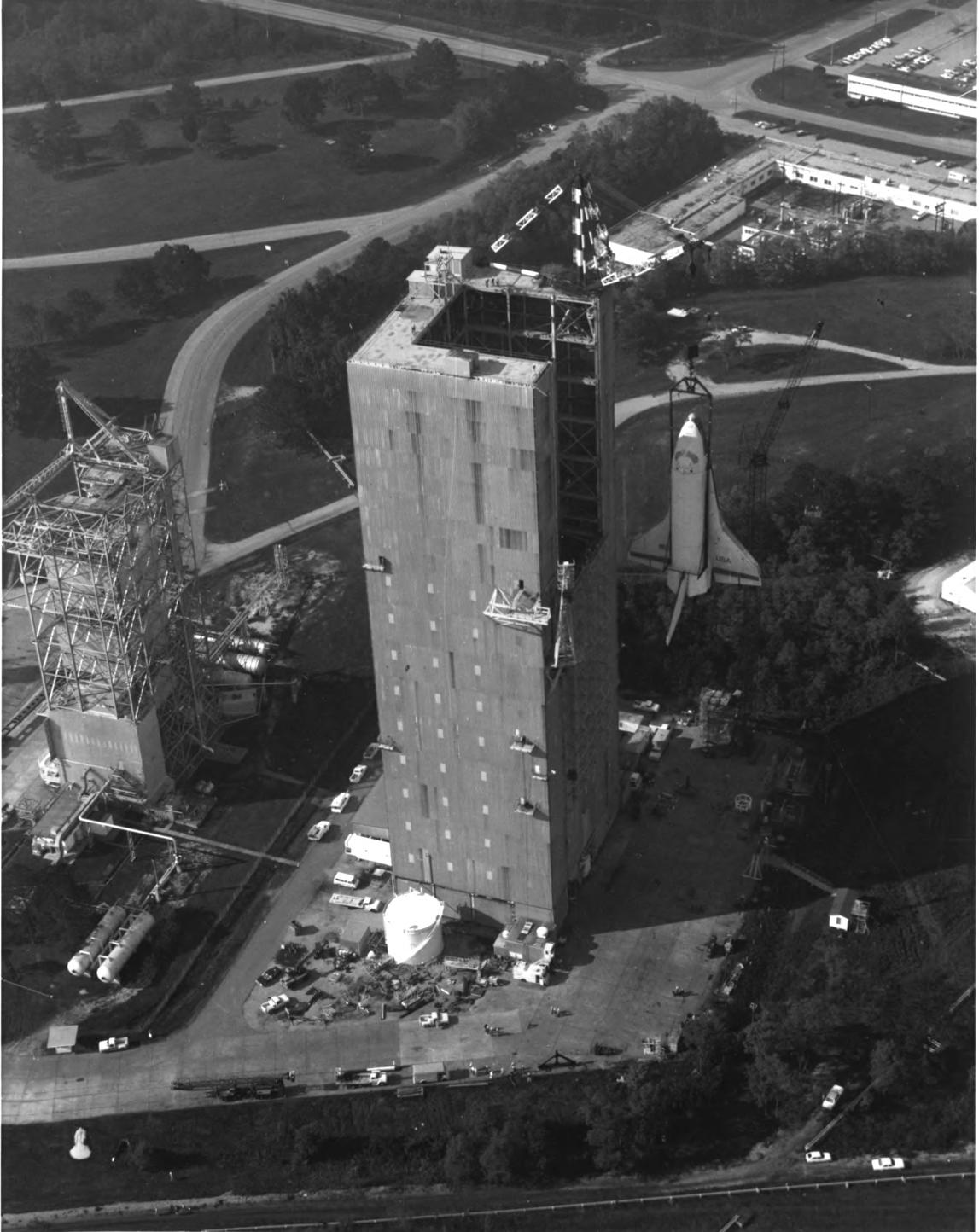 The Space Shuttle Enterprise is hoisted into the Dynamic Structural Test Facility at the George C. Marshall Space Flight Center in Huntsville, Alabama. The test facility is significant for its role in rocket development.